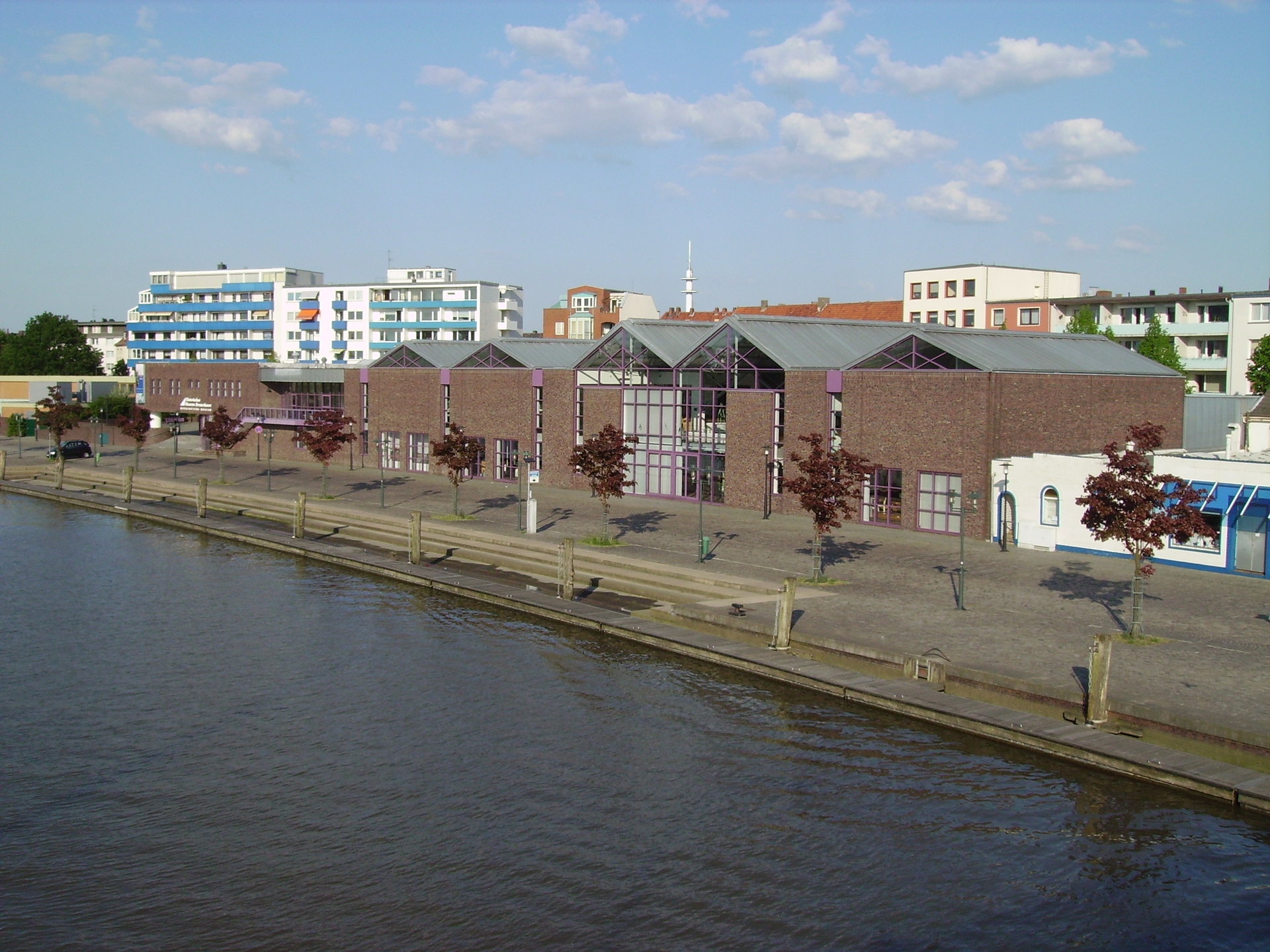 View of the Historical Museum of Bremerhaven Historisches Museum Bremerhaven Native nameHistorisches Museum BremerhavenLocationBremerhaven, GermanyCoordinates53° 32′ 20″ N, 8° 35′ 08″ E Established1991WebsiteHomepageAuthority control VIAF: 138282000 LCCN: n2003100099 GND: 16054638-2 SUDOC: 112852483 WorldCat